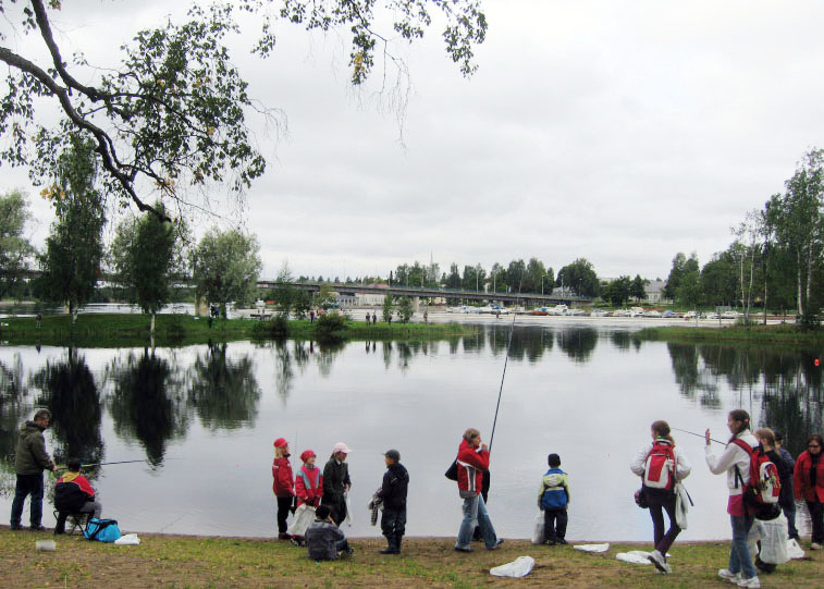 fishingday on Ilosaari isle in Joensuu Finland